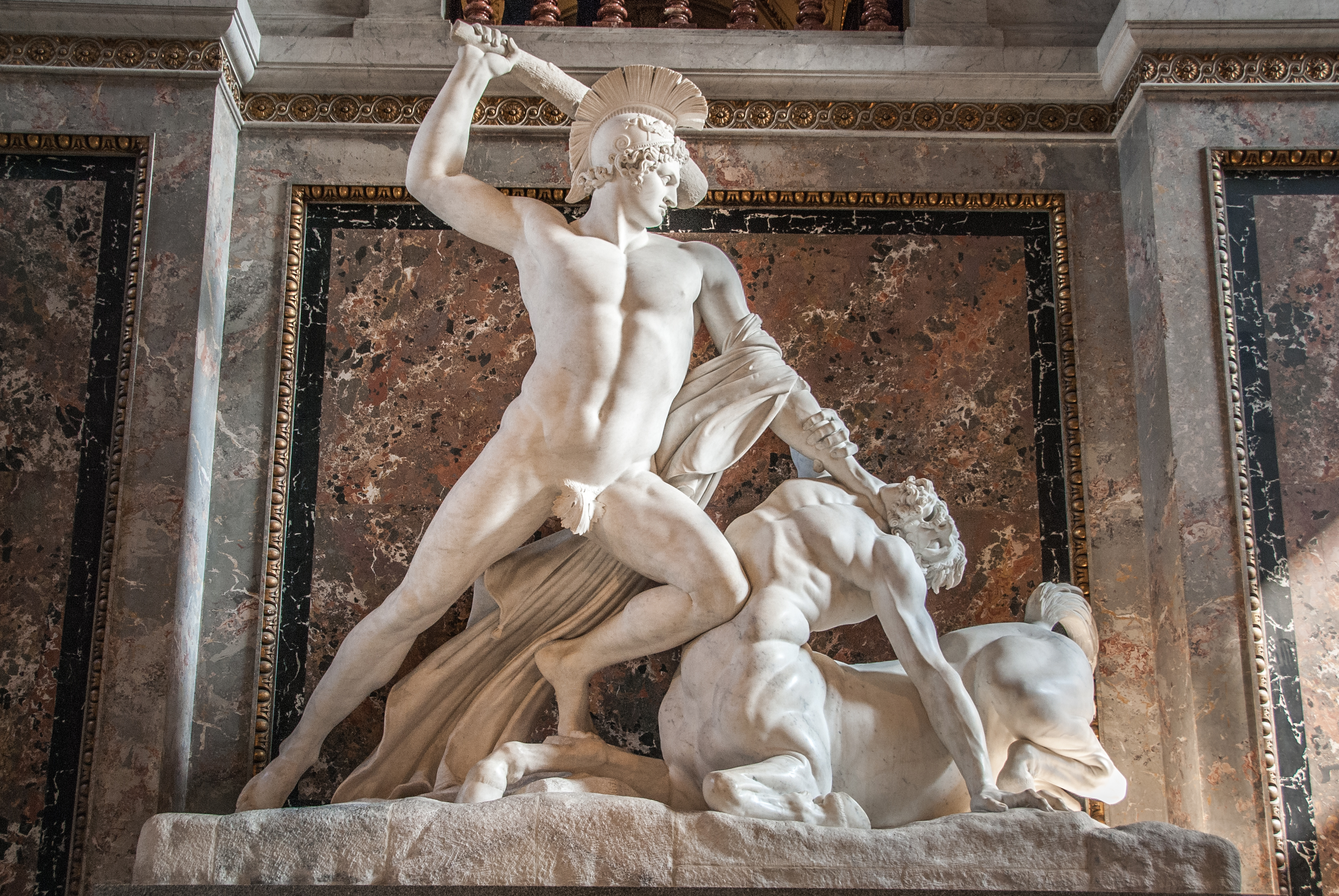 Antonio Canova - Teseo defeats the centaur - Kunsthistorisches Museum Wien - Vienna Austria